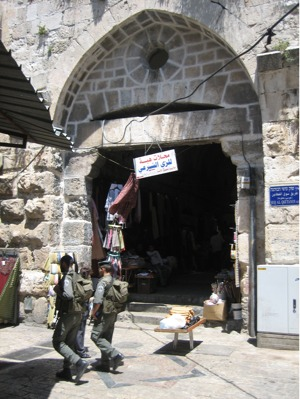 Suq al-Qattanin (Market of the Cotton Workers) in Jerusalem, reconstructed in 1336. by the Mamluk governor of Syria. / Pamučarski suk (Suq al-Qattanin) u Jeruzalemu, bazar što ga je 1336. dao obnoviti mamelučki upravitelj Sirije.